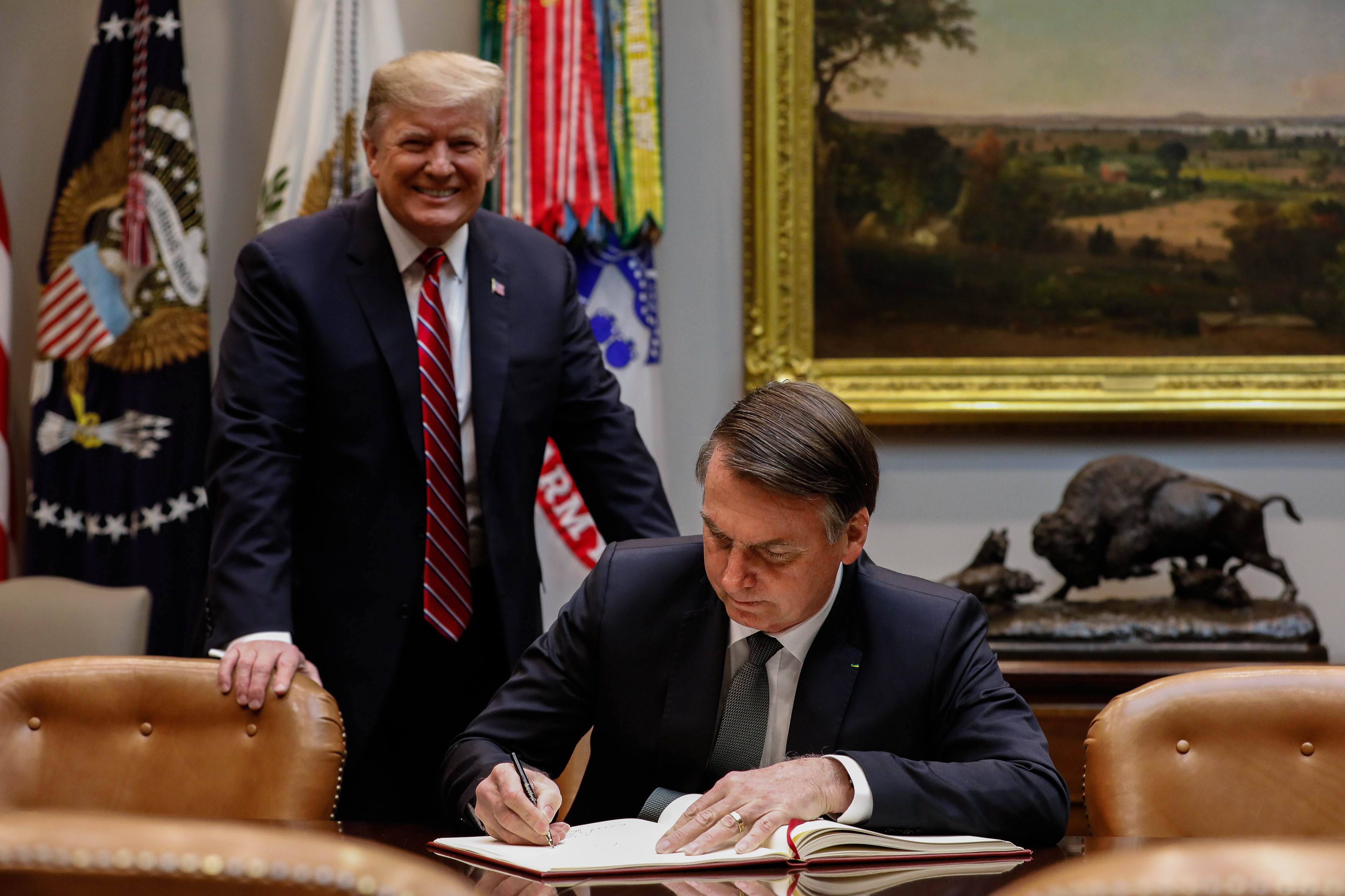 (Washington, DC - EUA 19/03/2019) Presidente da República Jair Bolsonaro assina o livro de visitas da White House.Foto: Alan Santos/PR